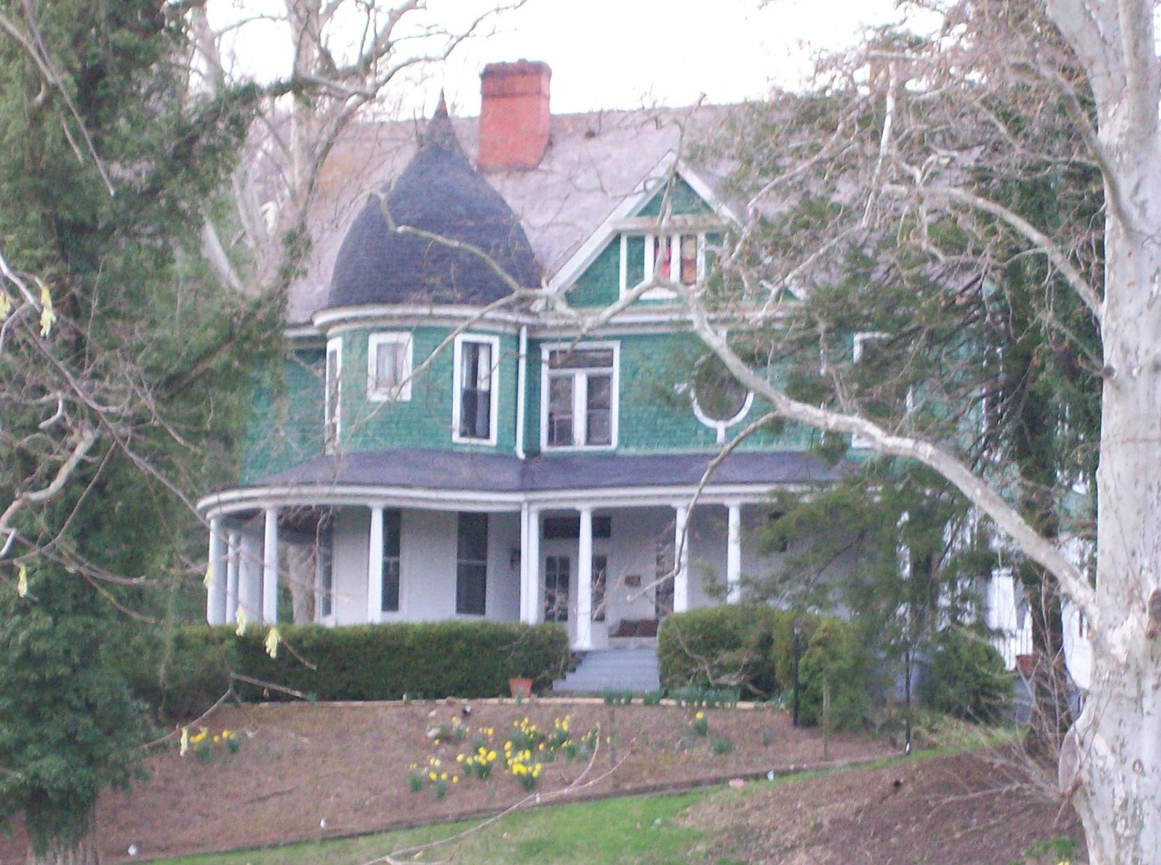 The H.C. Ogden House at 12 Park Drive in Wheeling, West Virginia. The house's southern facade is photographed. Taken April 2, 2010.